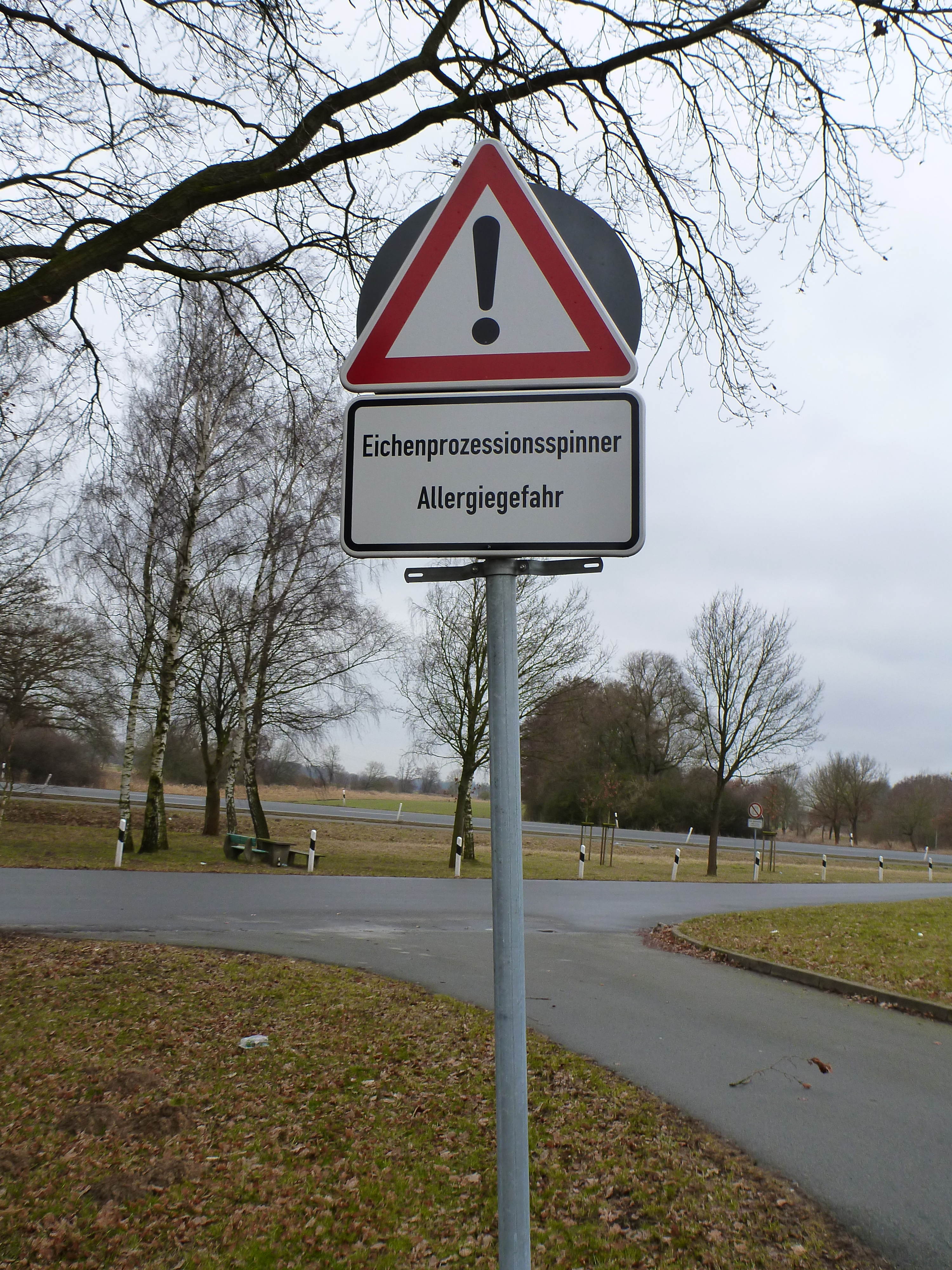 Warning sign Thaumetopoea processionea (Eichenprozessionsspinner) in Lower Saxony, Germany